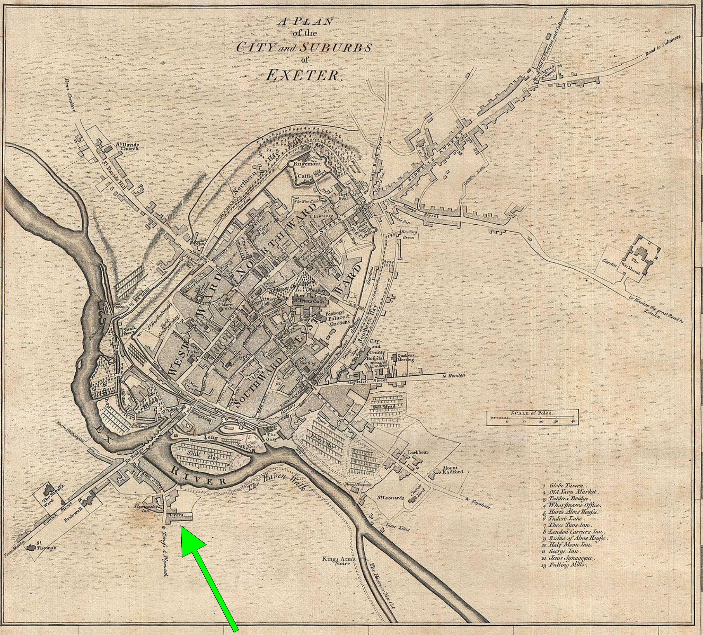 Floyer Hayes, seat of Floyer family, indicated by green arrow (2016) on 1765 map of the City of Exeter by Benjamin Donne